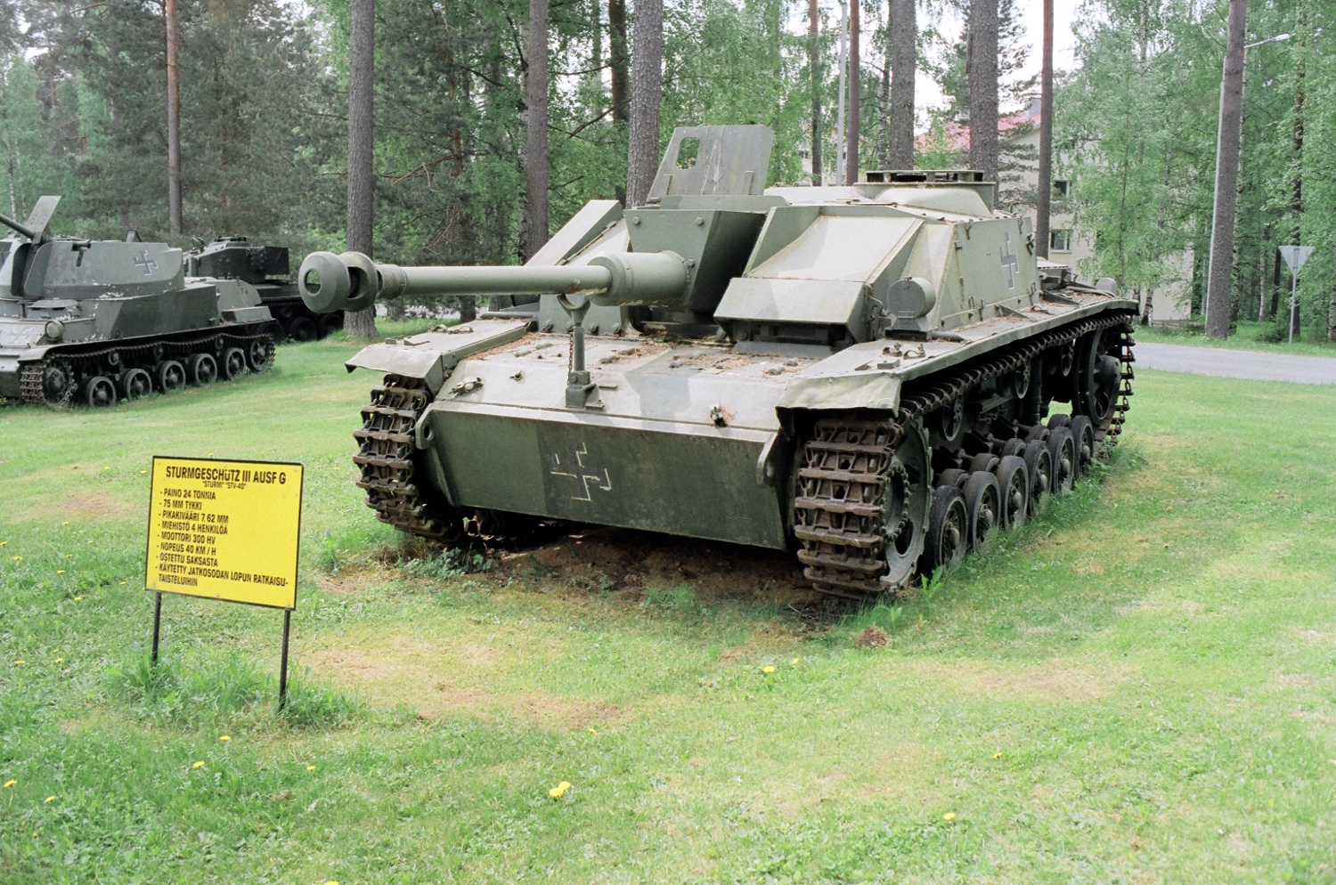 An StuG III assault gun, model Ausf. G, in the Karkialampi barracks area in Mikkeli, Finland.